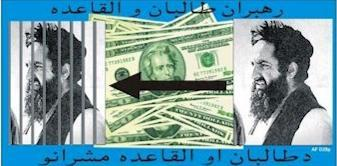 The CIA prepared a series of leaflets announcing bounties for those who turned in or denounced individual suspected of association with the Taliban or al Qaeda. Huge bounties were offered for Osama bin Laden, his senior lieutenants and the leadership cadre of the Taliban. Less well known is that $5000 bounties were offered for anyone bounty hunters asserted was a Taliban foot soldier. $5000 (some say $10000) bounties were offered for every foreigner turned in. Original caption: "TALIBAN AND AL QAIDA LEADERSHIP"